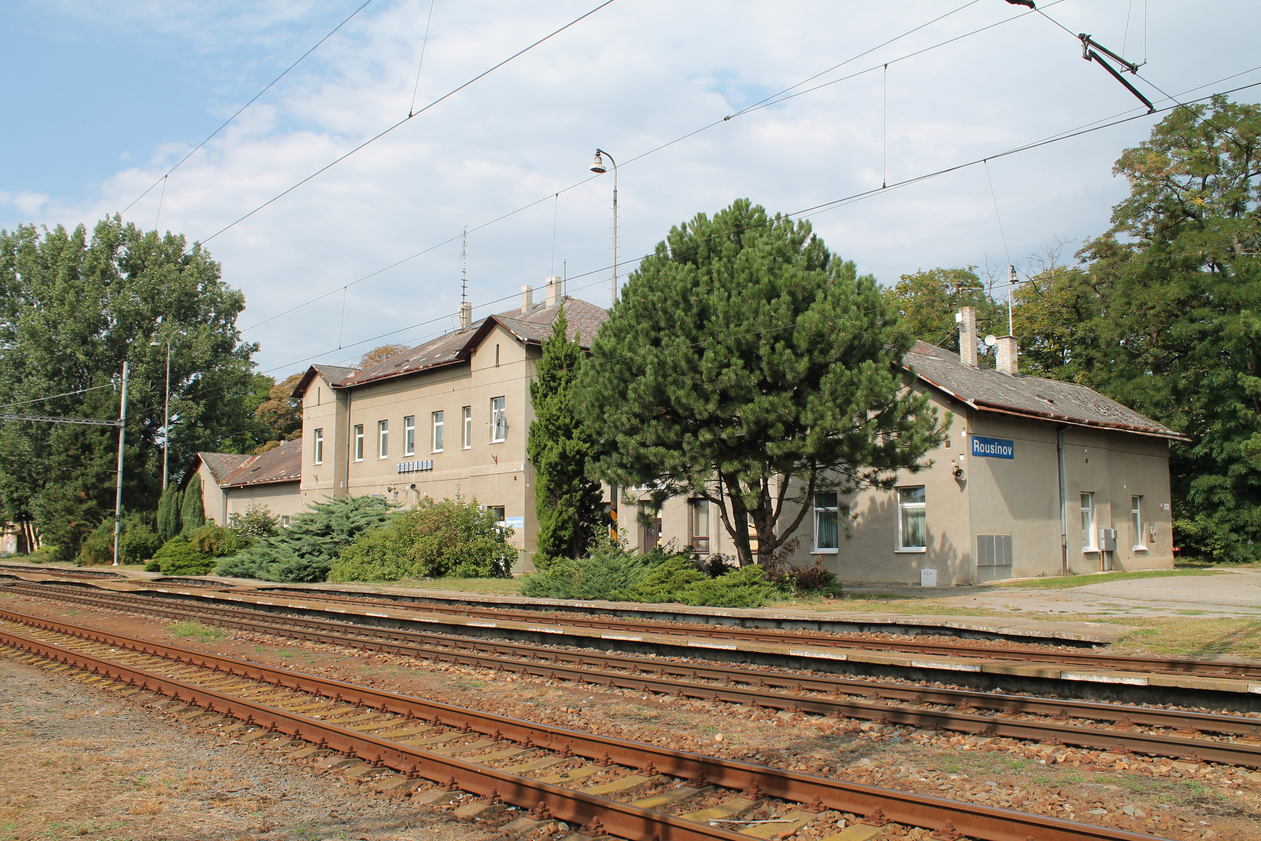 Rousínov train station, Slavíkovice, Rousínov, Vyškov District, Czech Republic